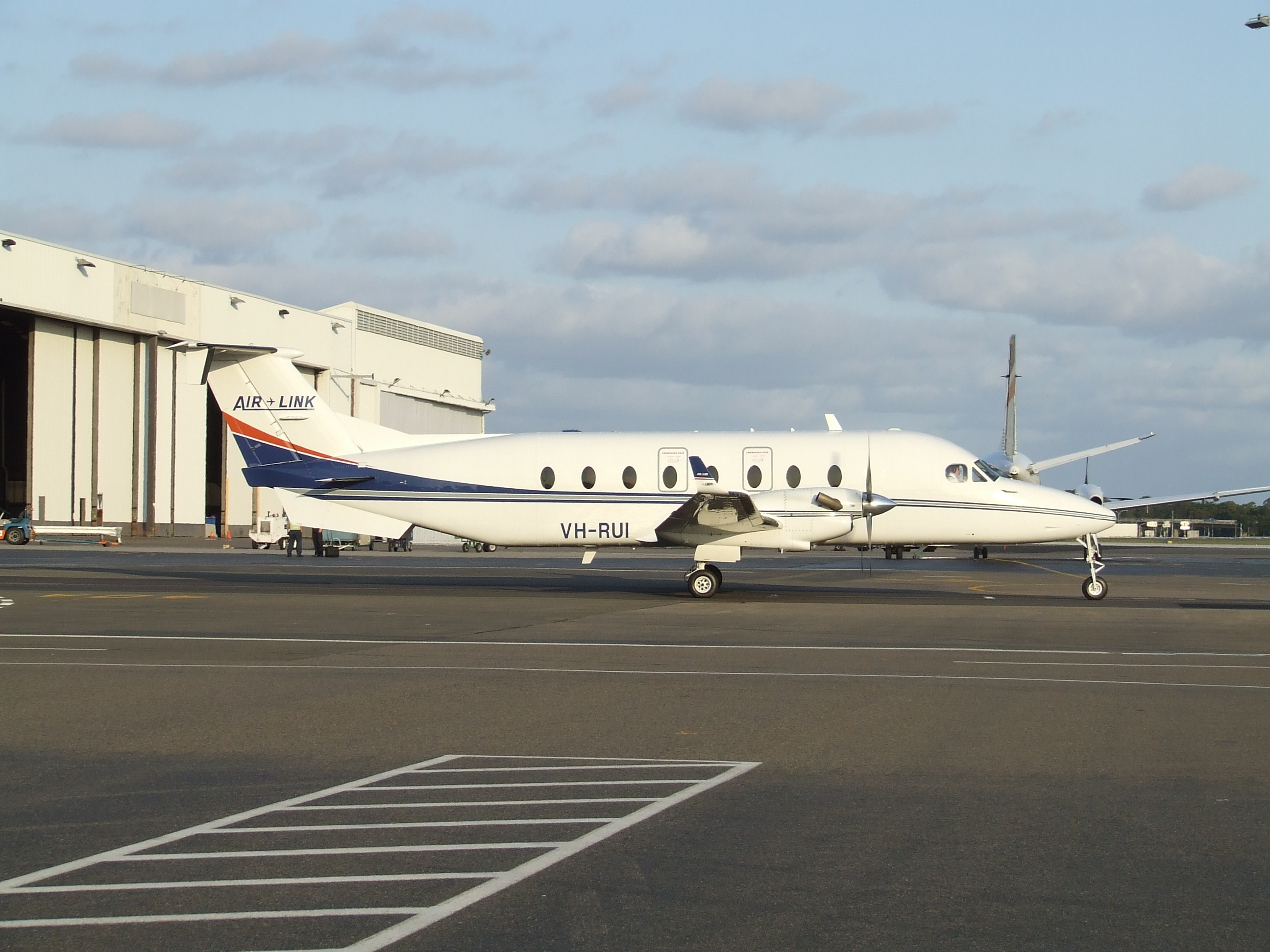 Air Link operate two Beech 1900D aircraft on services to some of the larger regional communities in New South Wales. VH-RUI was the second to enter service, in early 2007. Digital photo of VH-RUI taken at Sydney Airport.